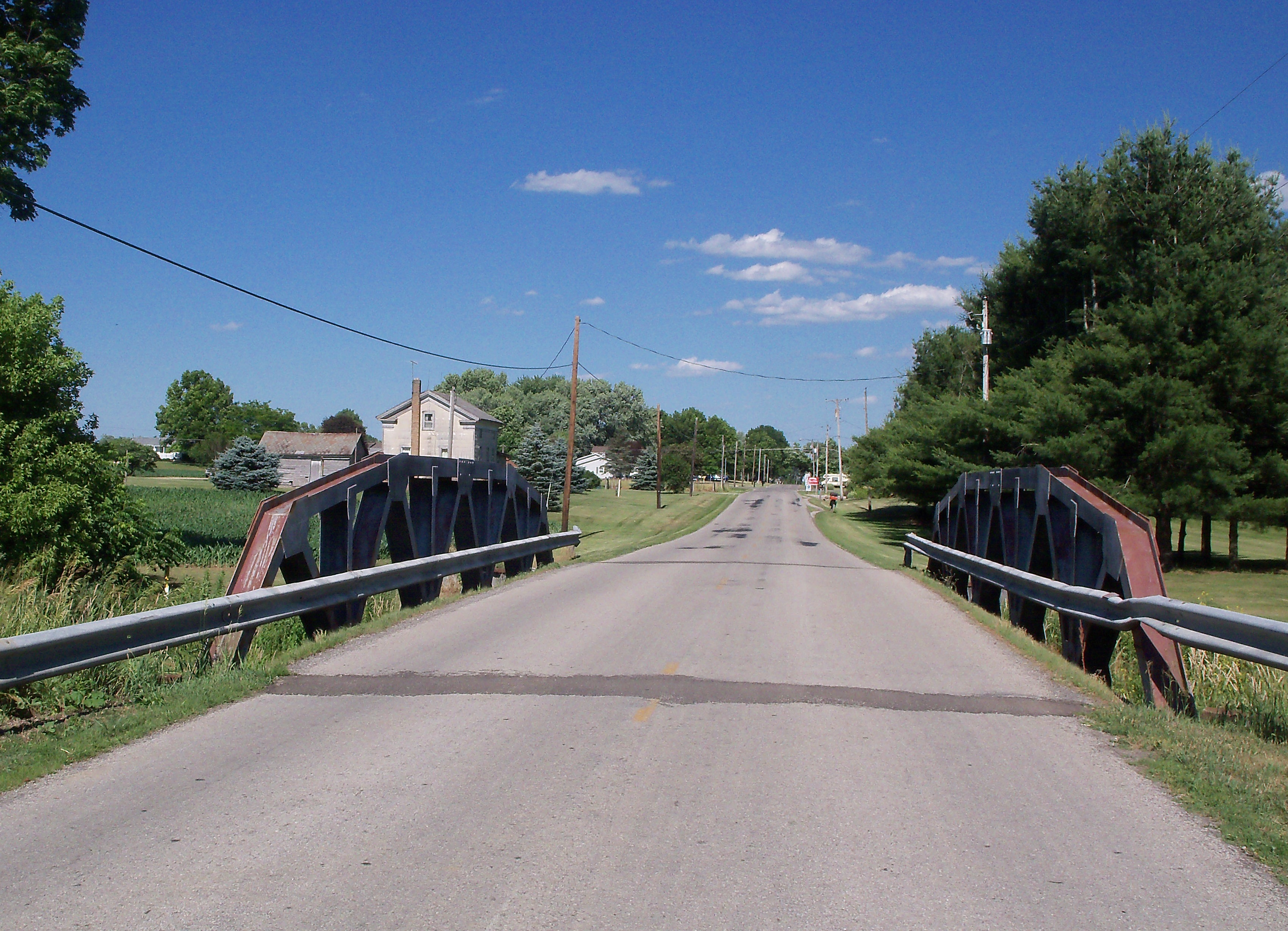 Near the headwaters of Killbuck Creek just west of Creston, Ohio, Britton Road crosses this pony truss bridge over the waterway. Seen from the west, the creek flows from south (right) to north under the bridge, before heading west, then turning south.